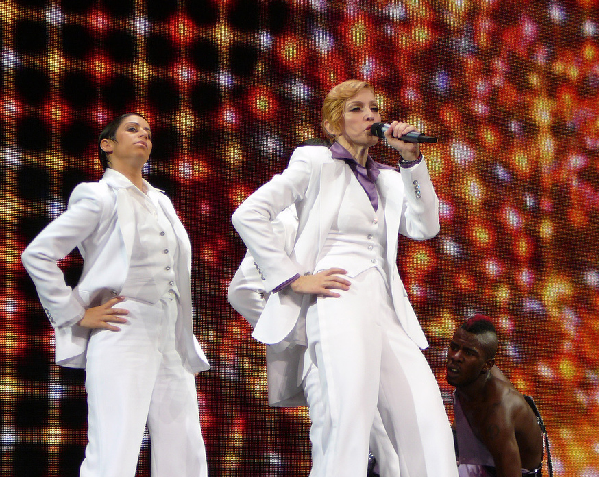 Photo taken at the concert